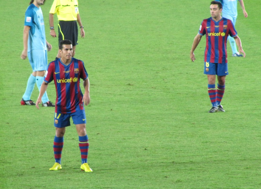 Pedro, Xavi during 2009 FIFA Club World Cup